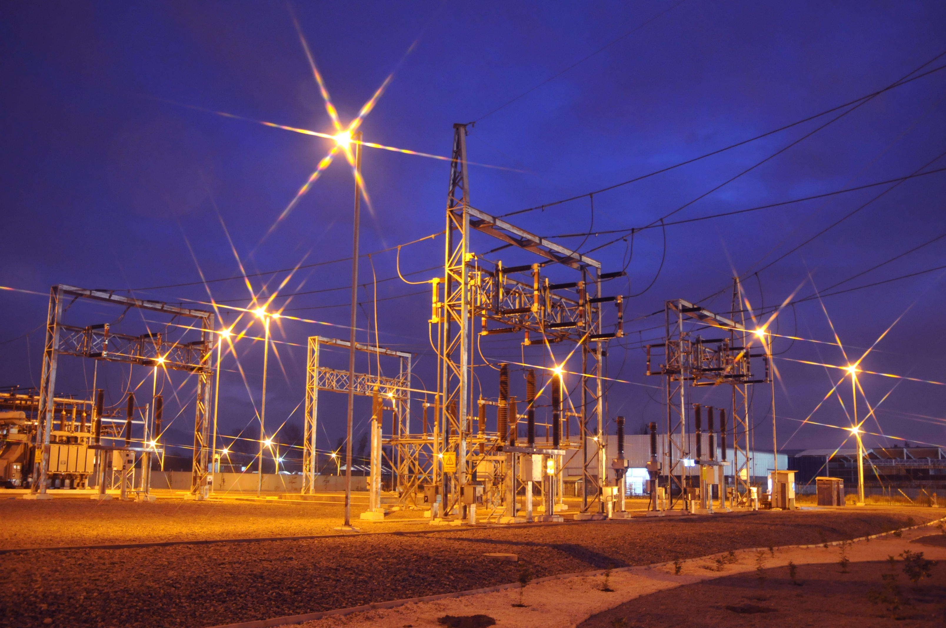 Enel distribución